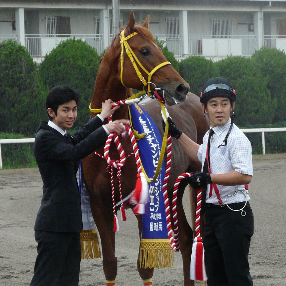 Osumi-ichiban20120503(2)